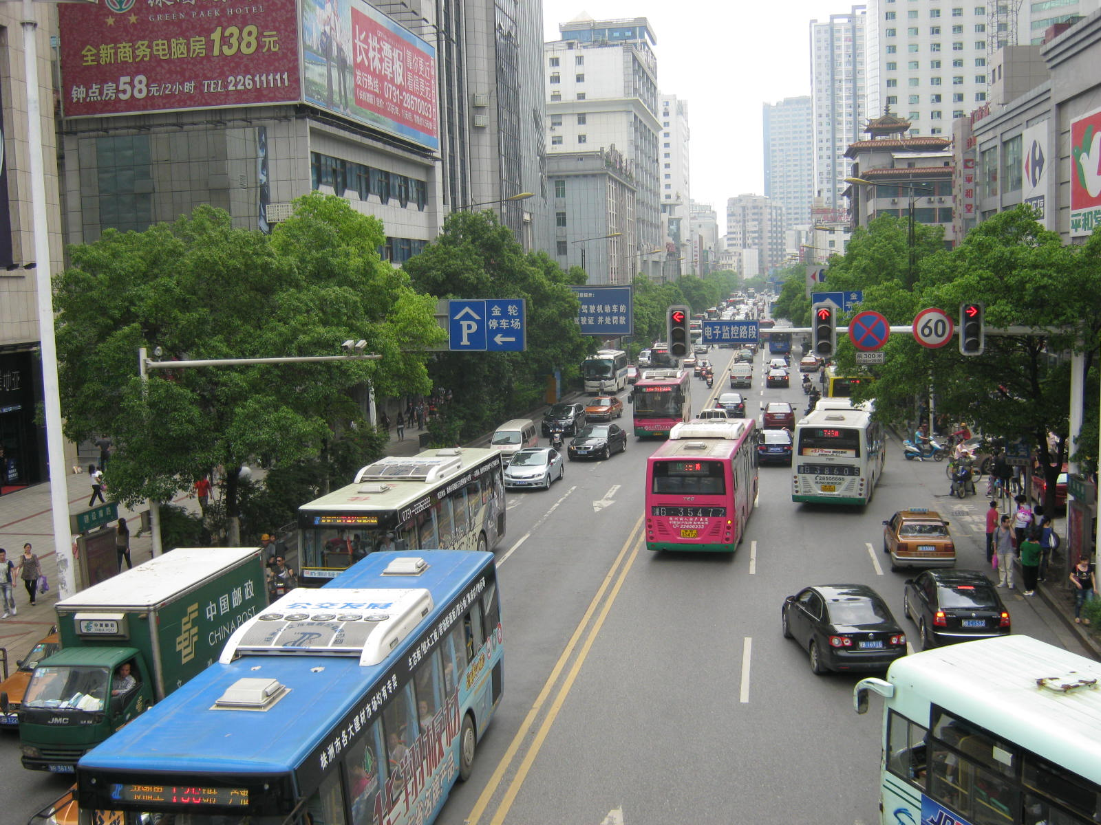 ZhouZou Renmin South Road, HuNan province